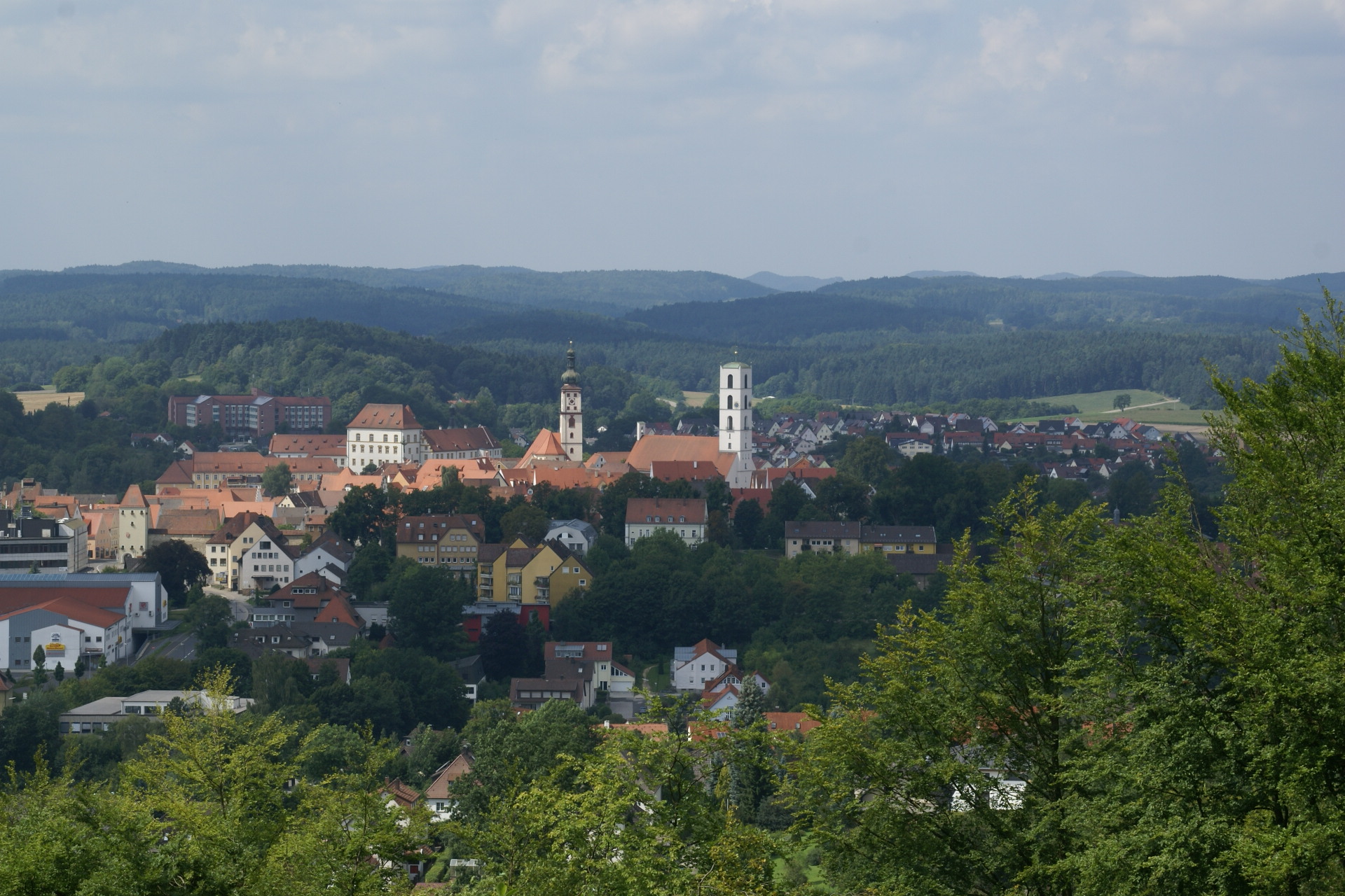 Panoramic view from Annaberg in Sulzbach-Rosenberg (Germany)